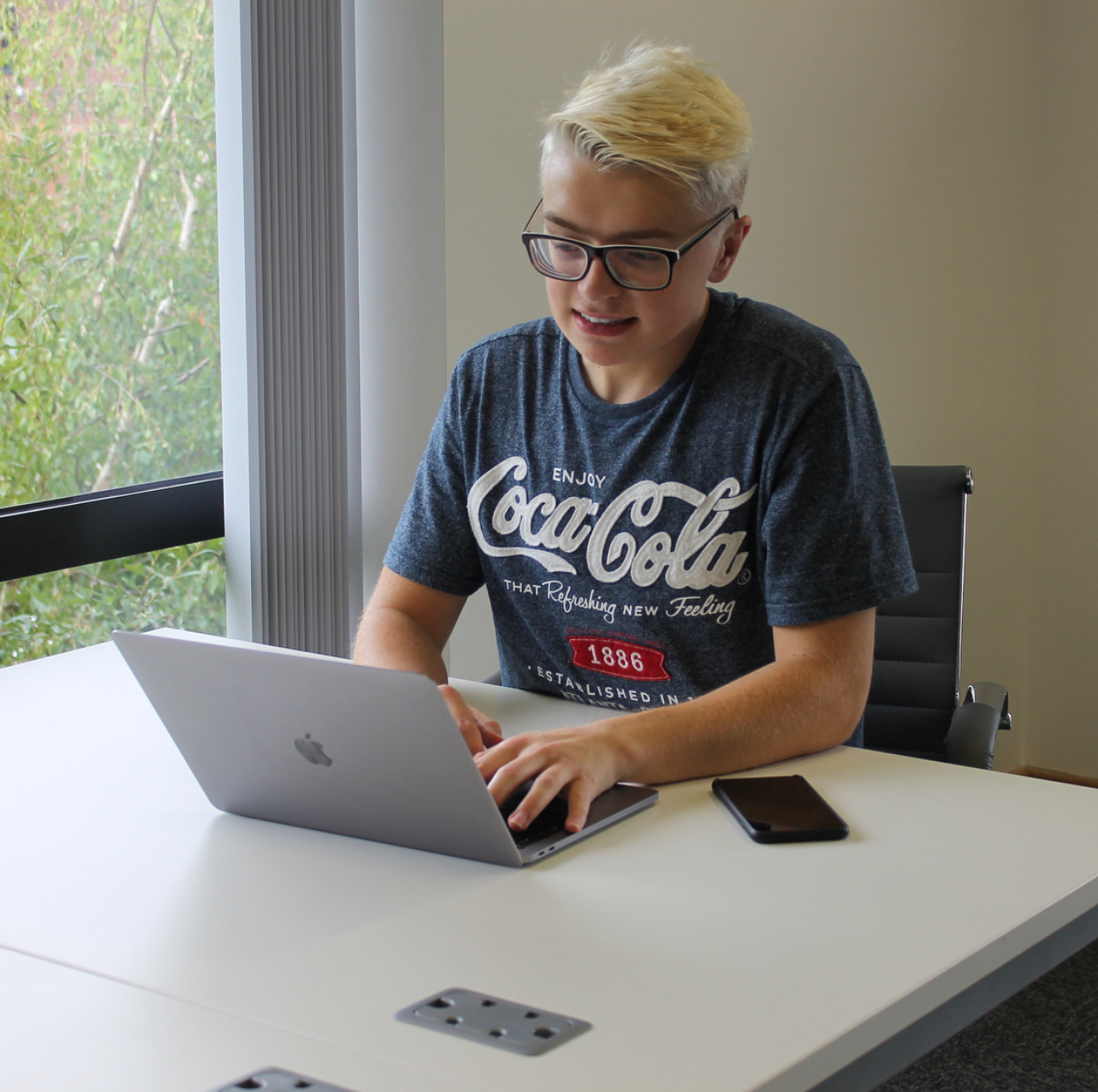 William Hale, mental health advocate pictured at his office.